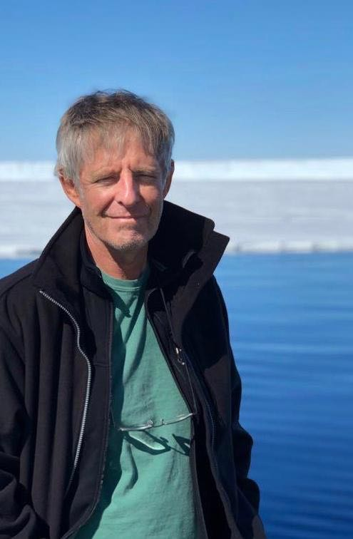 A picture of Mensun Bound